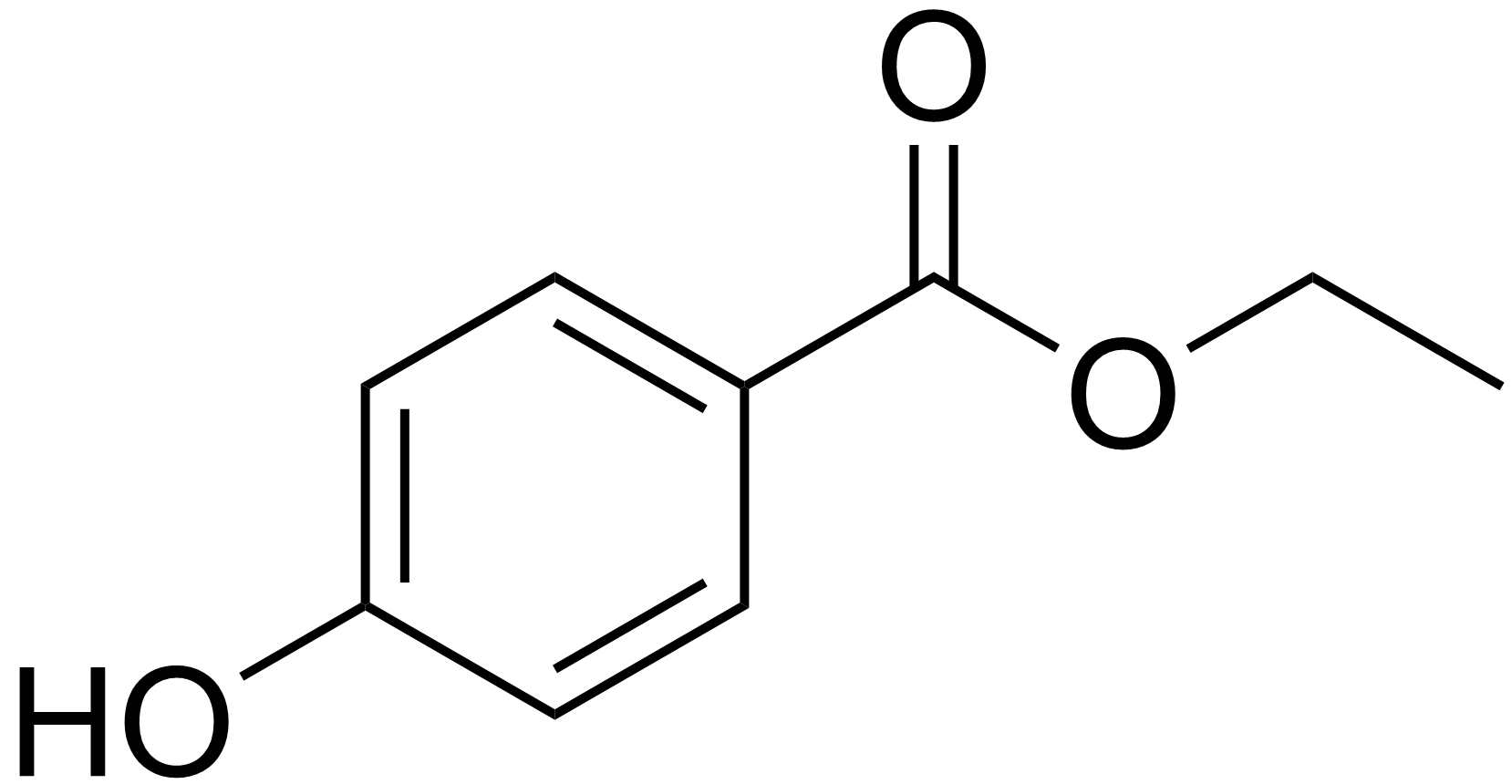 Chemical structure of ethyl paraben created with ChemDraw.